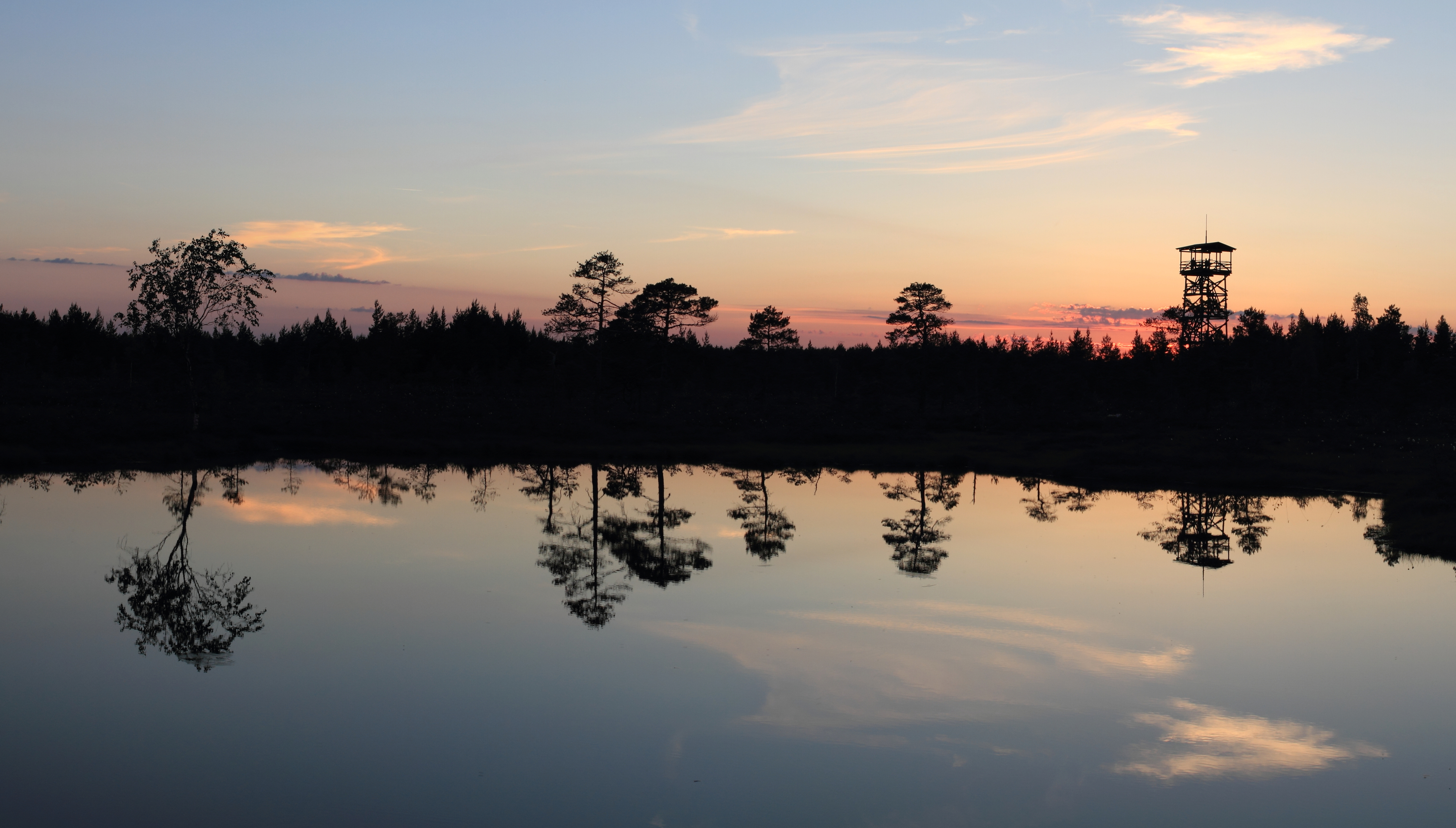 Mukri bog